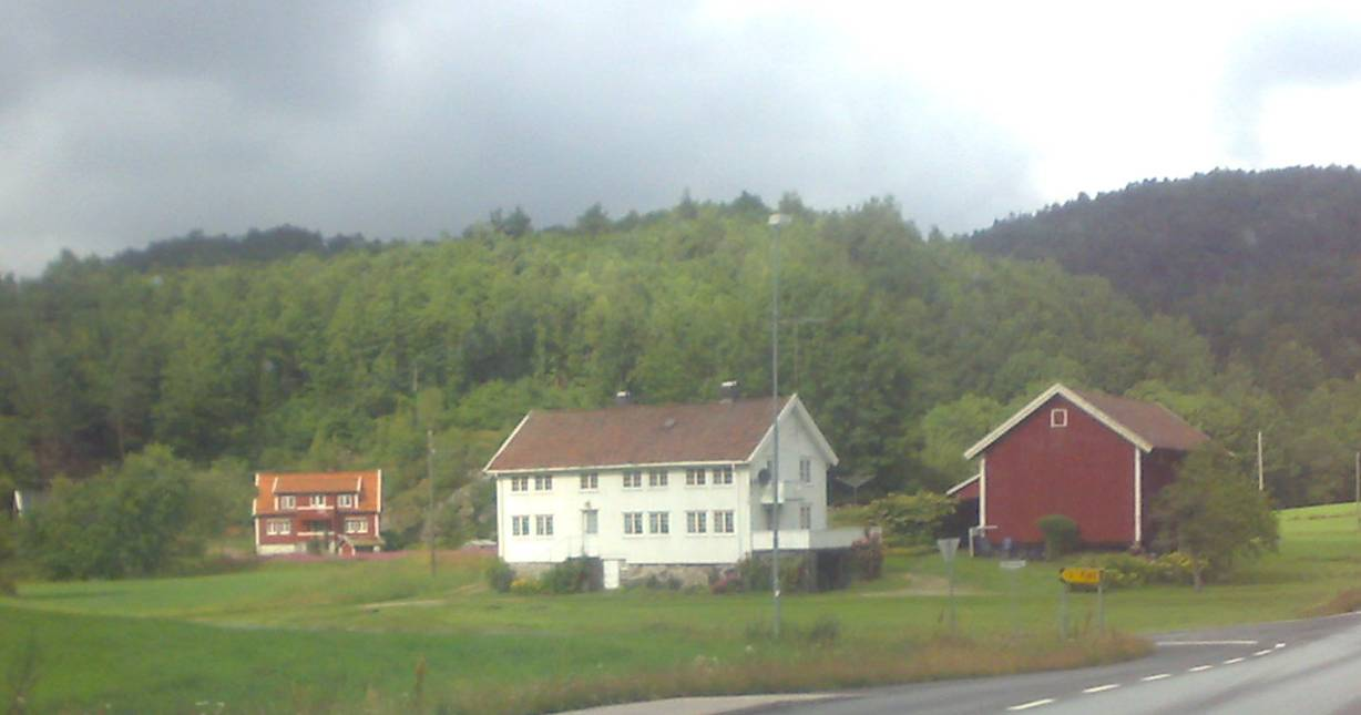 Watne manor, east of Mandal, Norway